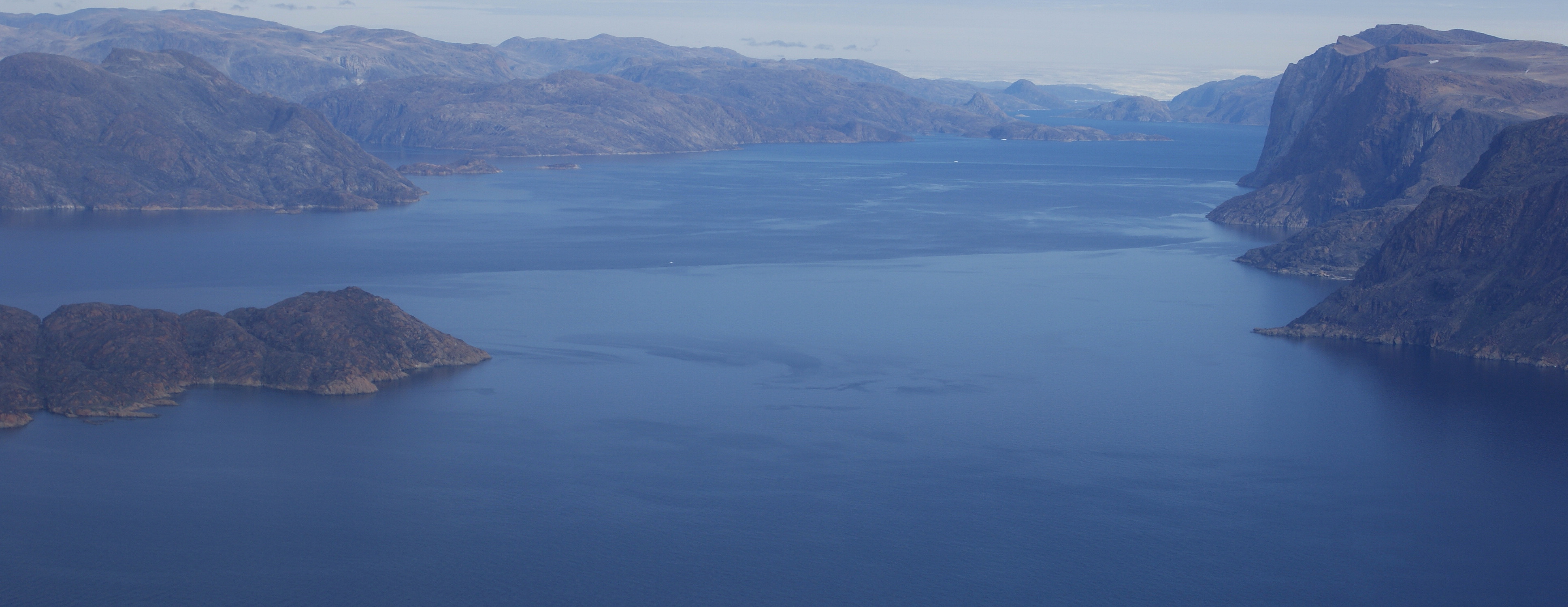 Aerial view of Ammarqua Strait, Upernavik Archipelago, Greenland. Photographed from the Air Greenland Bell 212 helicopter during the Upernavik Kujalleq - Upernavik flight.